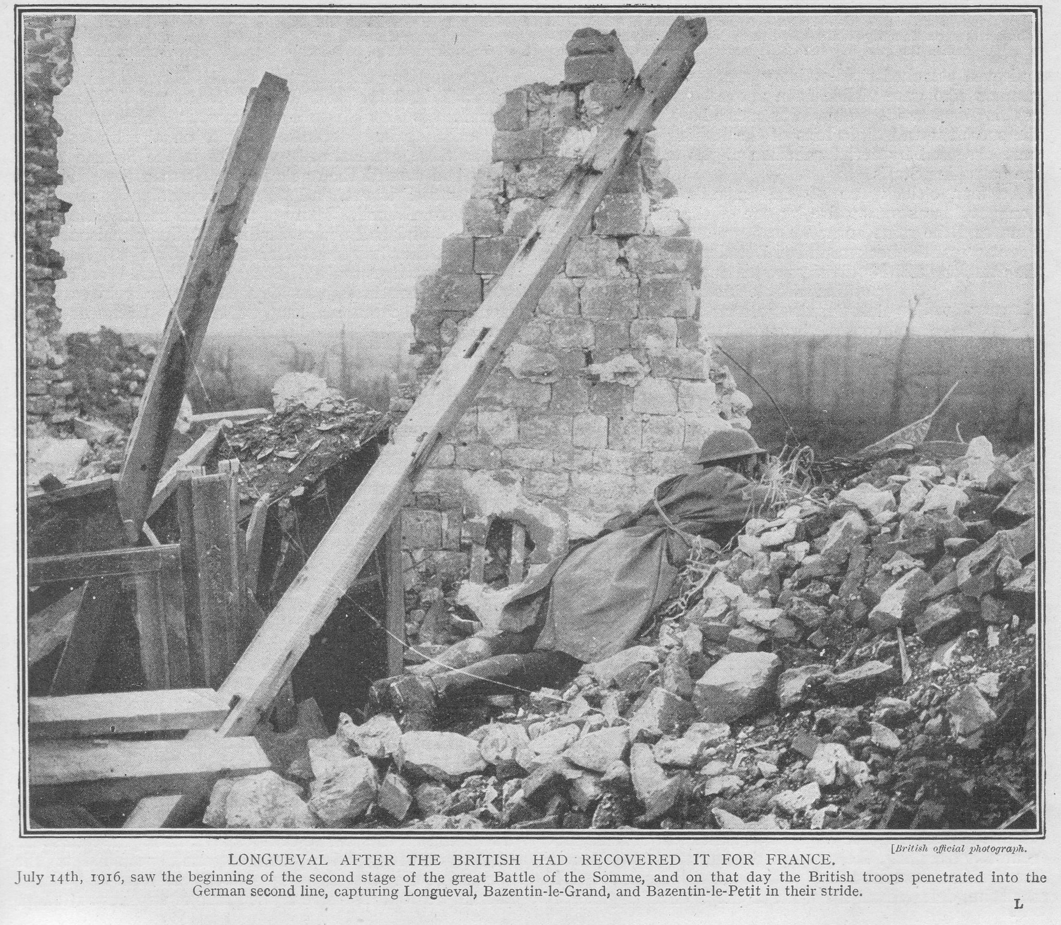 Battles in Longueval close to Delville Wood: July 1914